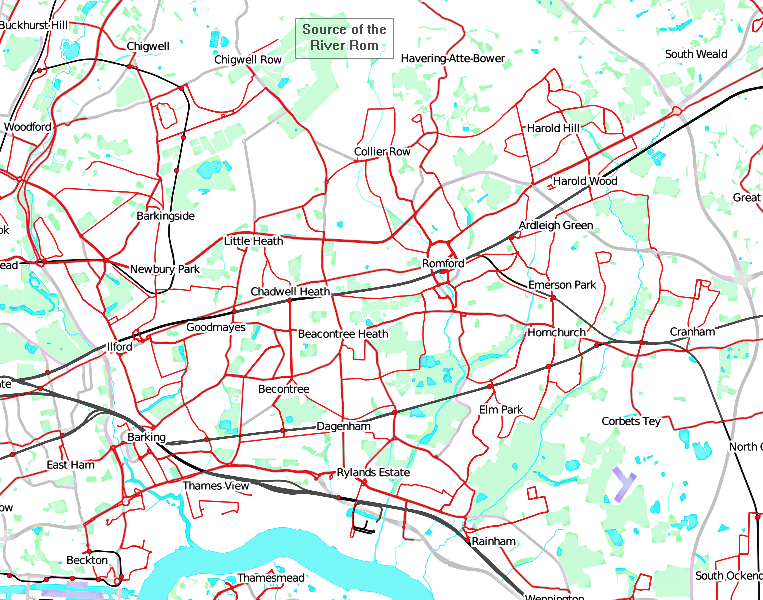 Map of the River Beam, River Rom and Ravensbourne London, traditionally in Essex.